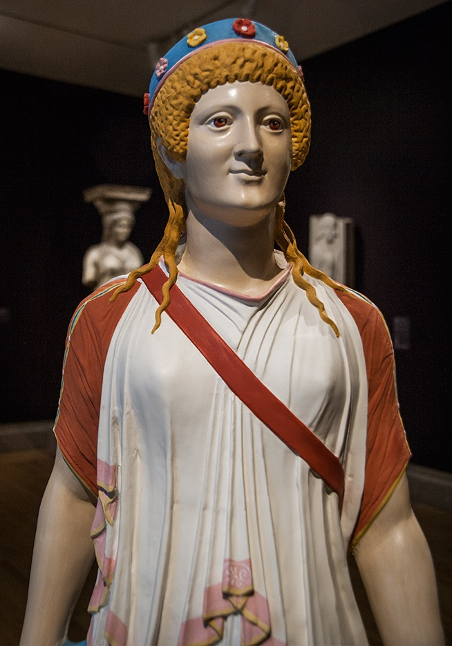 Artemis First century AD. Cast of marble figure, painted with pigments in egg tempera. Found in Pompeii (VII.6.3) The statue is a Roman creation imitating Greek statues of the sixt century BC. Numerous colour traces on the skin and clothes were visible at the time of the statue's discovery. The exact colours were identified scientifically and have been used in the reconstruction. Part of the Gods in Colour exhibition at the Ashmolean Museum 2015.